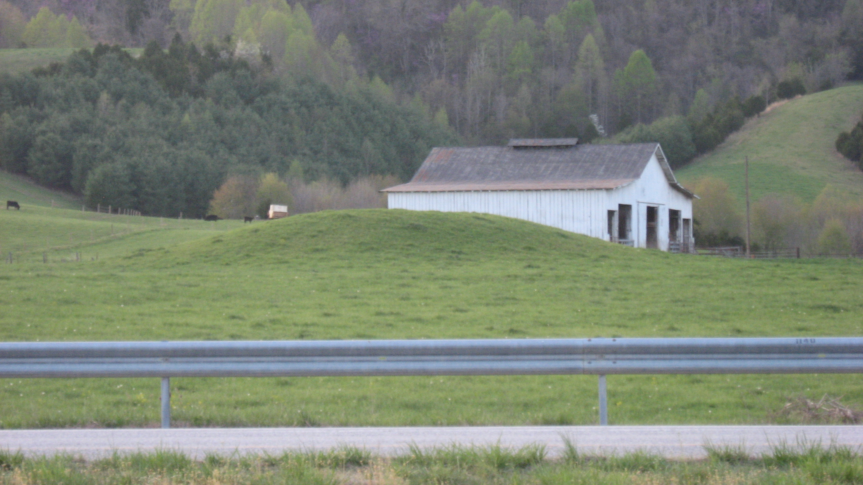 Southern side of the Ely Mound, located along the northern side of U.S. Route 58 west of Rose Hill in Lee County, Virginia, United States. As a significant archaeological site, it is listed on the National Register of Historic Places.